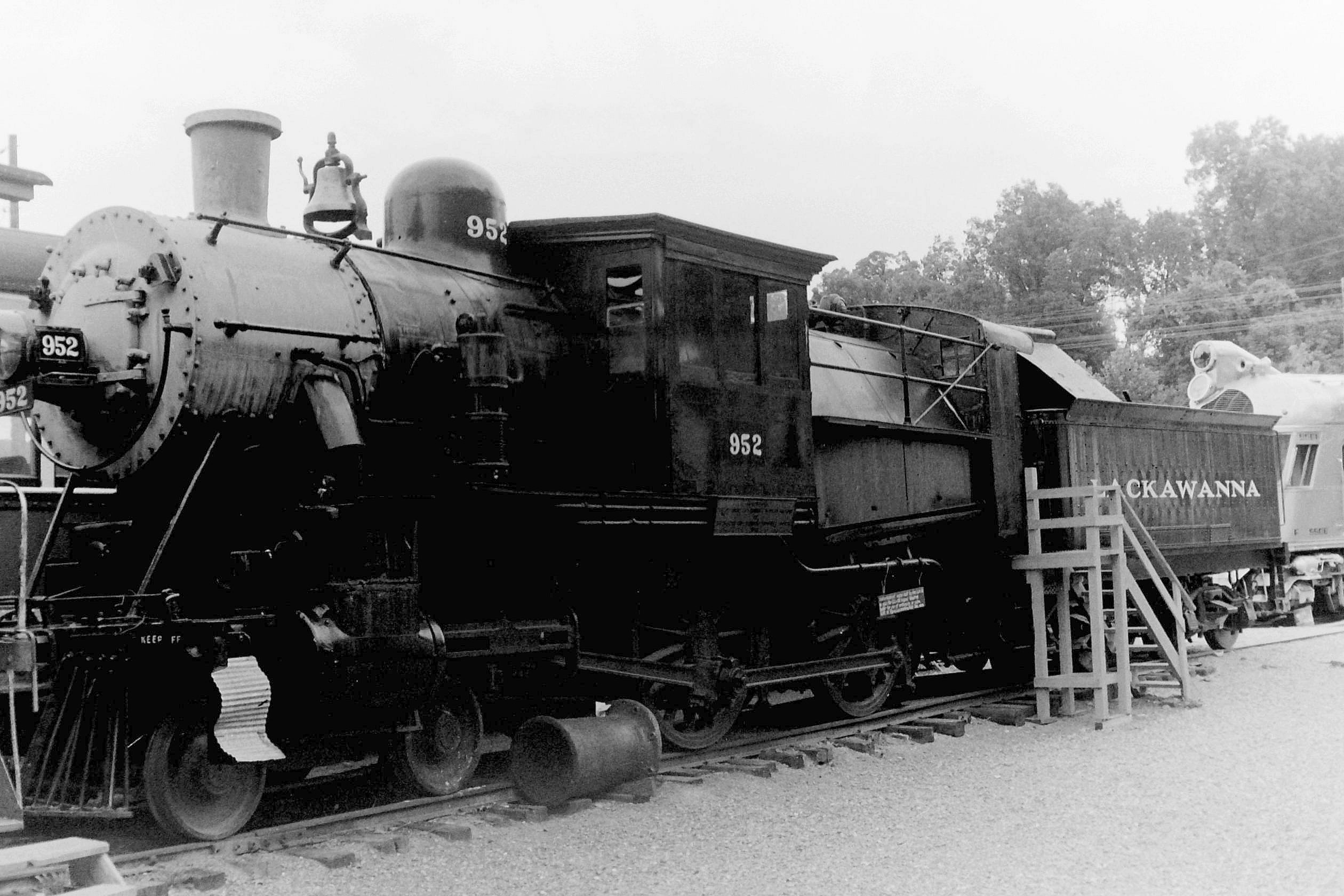 Delaware, Lackawanna & Western RR "944" Class "Mother Hubbard" type 4-4-0 No.952 built by ALCO 1905, at the National Museum of Transport, St Louis, 8/70. Alco built 50 in 1901-11 (12 in "944" batch) and Baldwin built 15 in 1904. They were withdrawn 1929-51. Their huge Wootten fireboxes were designed to burn anthracite so to give the driver a good view a second cab was built mid way along the boiler, whilst the fireman's cab in the conventional position was rudimentary.